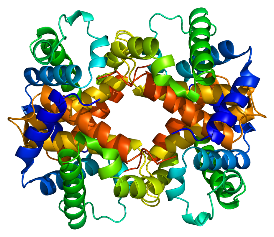 Structure of the HBB protein. Based on PyMOL rendering of PDB 1a00.